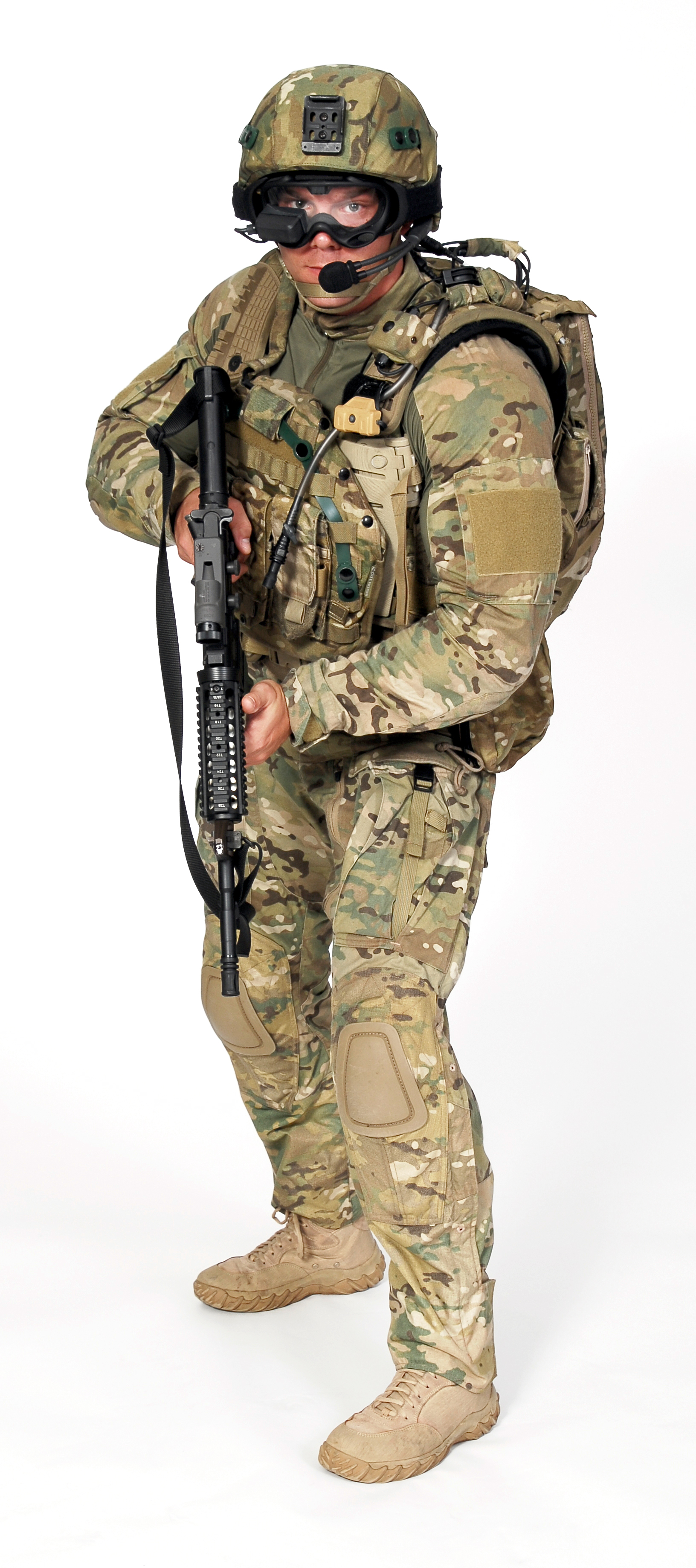 Army Future Force Soldier The Army's Future Force Warrior system is one step closer to being fielded as the Ground Soldier System following a successful demonstration in August of its electronic networking capability.